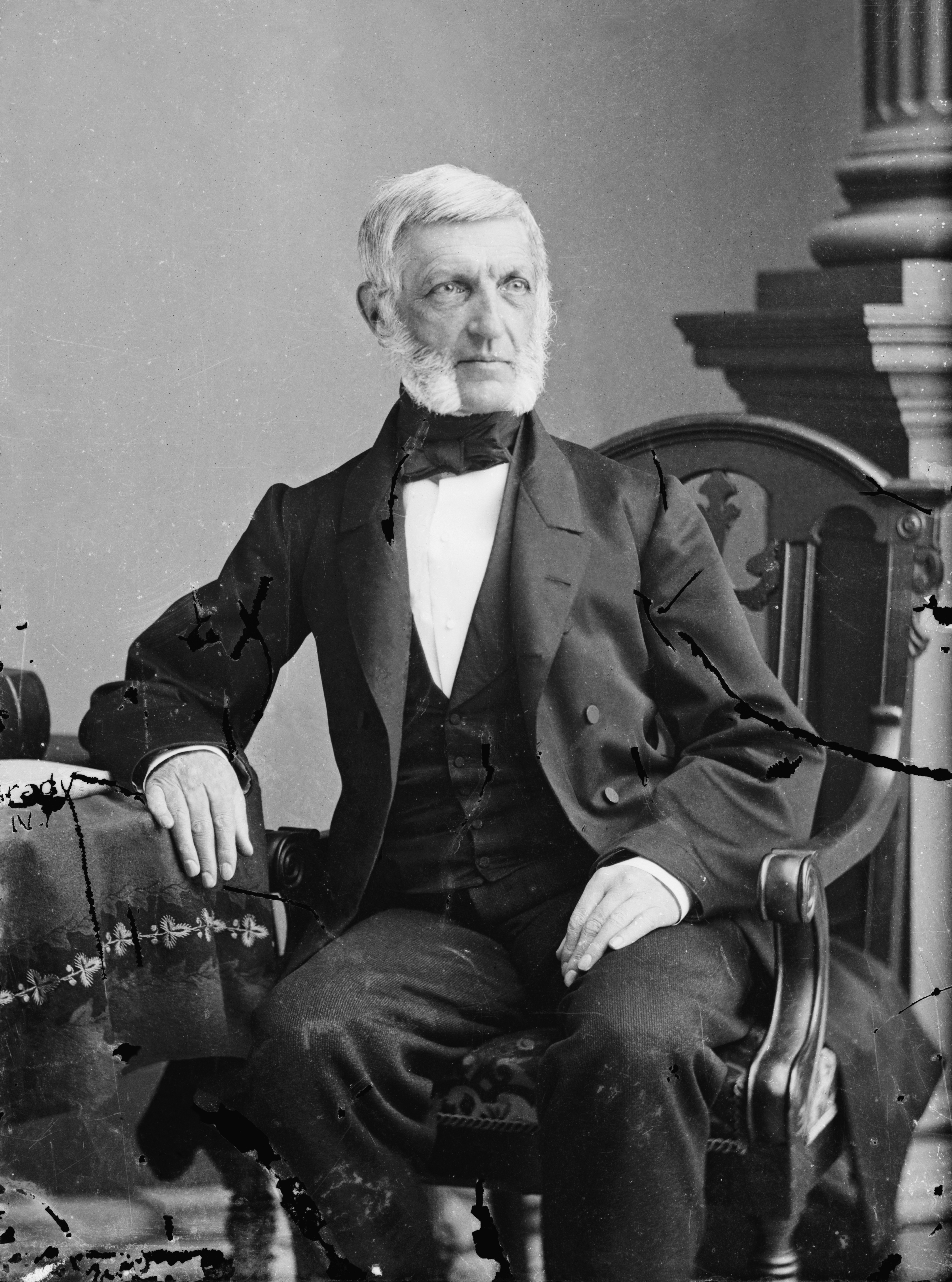 Wet plate collodion photograph of George Bancroft, United States Secretary of the Navy, on glass. [Partially] cleaned-up version, with initial restoration - further versions will be uploaded over this one.